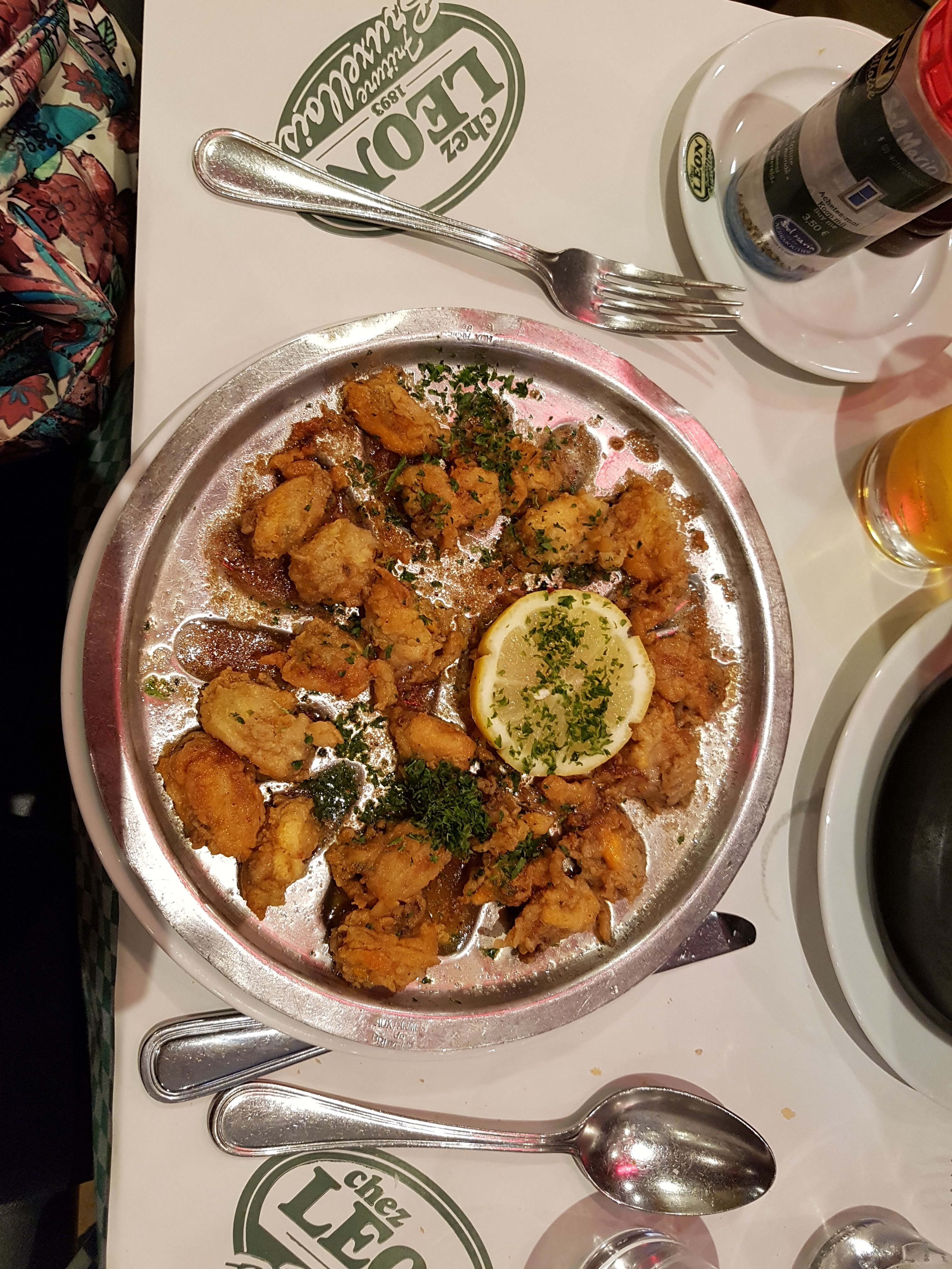 Fried mussels in Chinese style from a restaurant near Grant Place, Brussels.